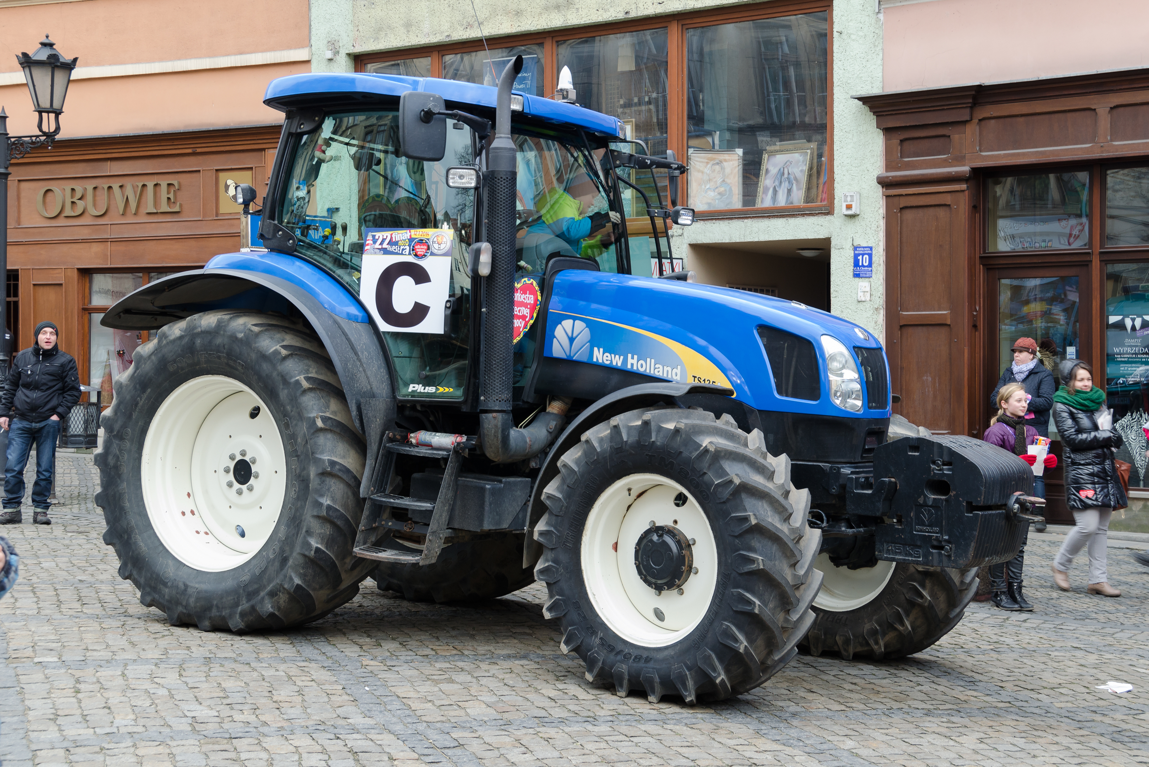 Tractor New Holland TS135A